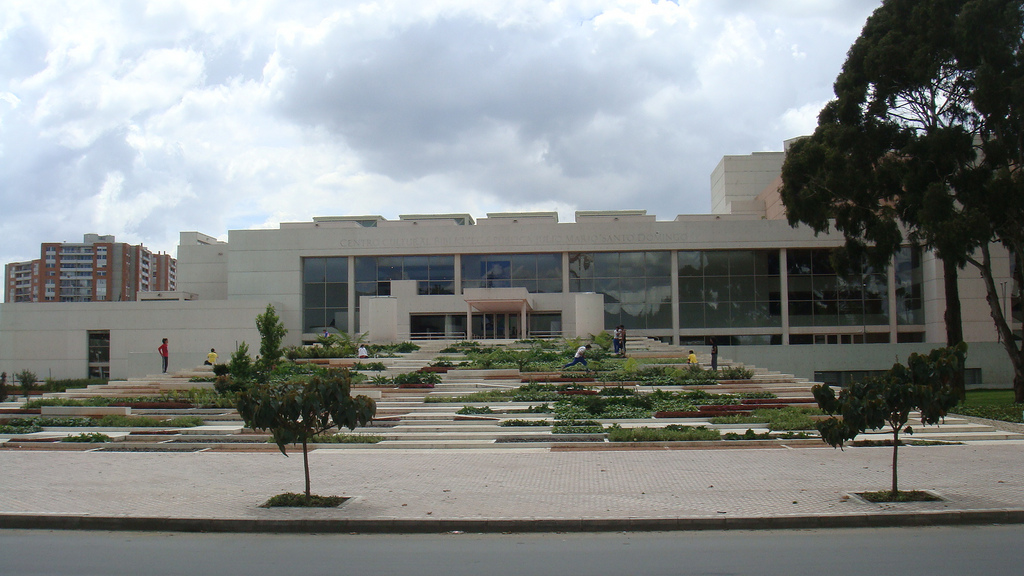 Library Julio Mario Santodomingo, Bogota, Colombia.